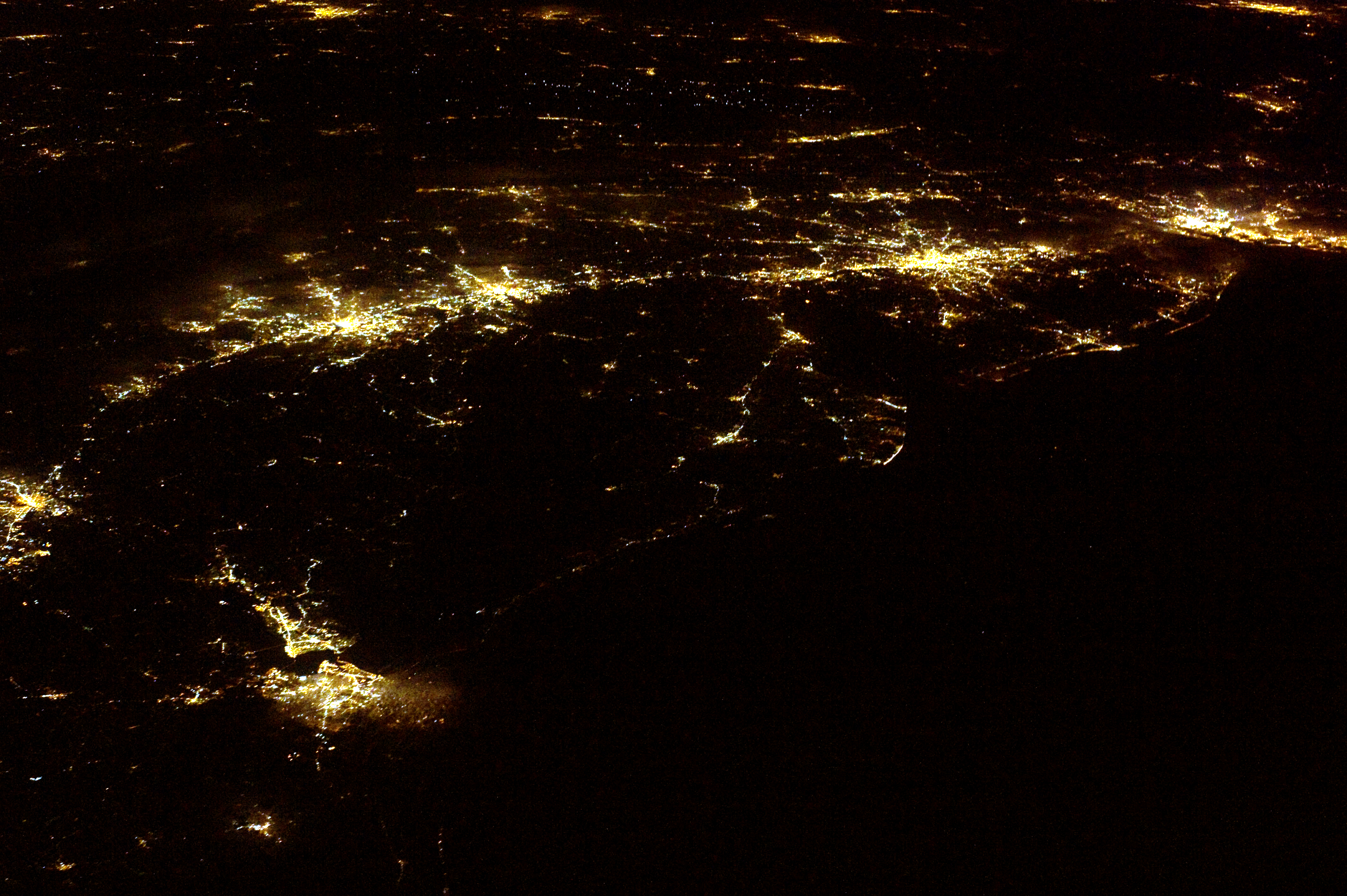 This astronaut photograph includes every metropolitan area in the Atlantic Seaboard Conurbation (ASC) except for Boston (located off the image to the north-east). This night image highlights the position and extent of each metropolitan area through urban lighting patterns. Two other large metropolitan areas are visible in the image—Norfolk and Richmond, Virginia, at image lower left—but neither is considered part of the ASC. In contrast to the city lights along the sea coast and interior, the Atlantic Ocean appears as a featureless dark region filling the lower right quarter of the image.